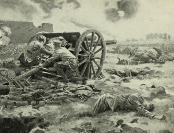 Artist's impression of the last 18-pounder gun of "L" Battery, Royal Horse Artillery, in action at Néry, 1 September 1914. Comment : This shows an 18-pounder gun, identified by long barrel. The gun in this action was actually a 13-pounder with short barrel.